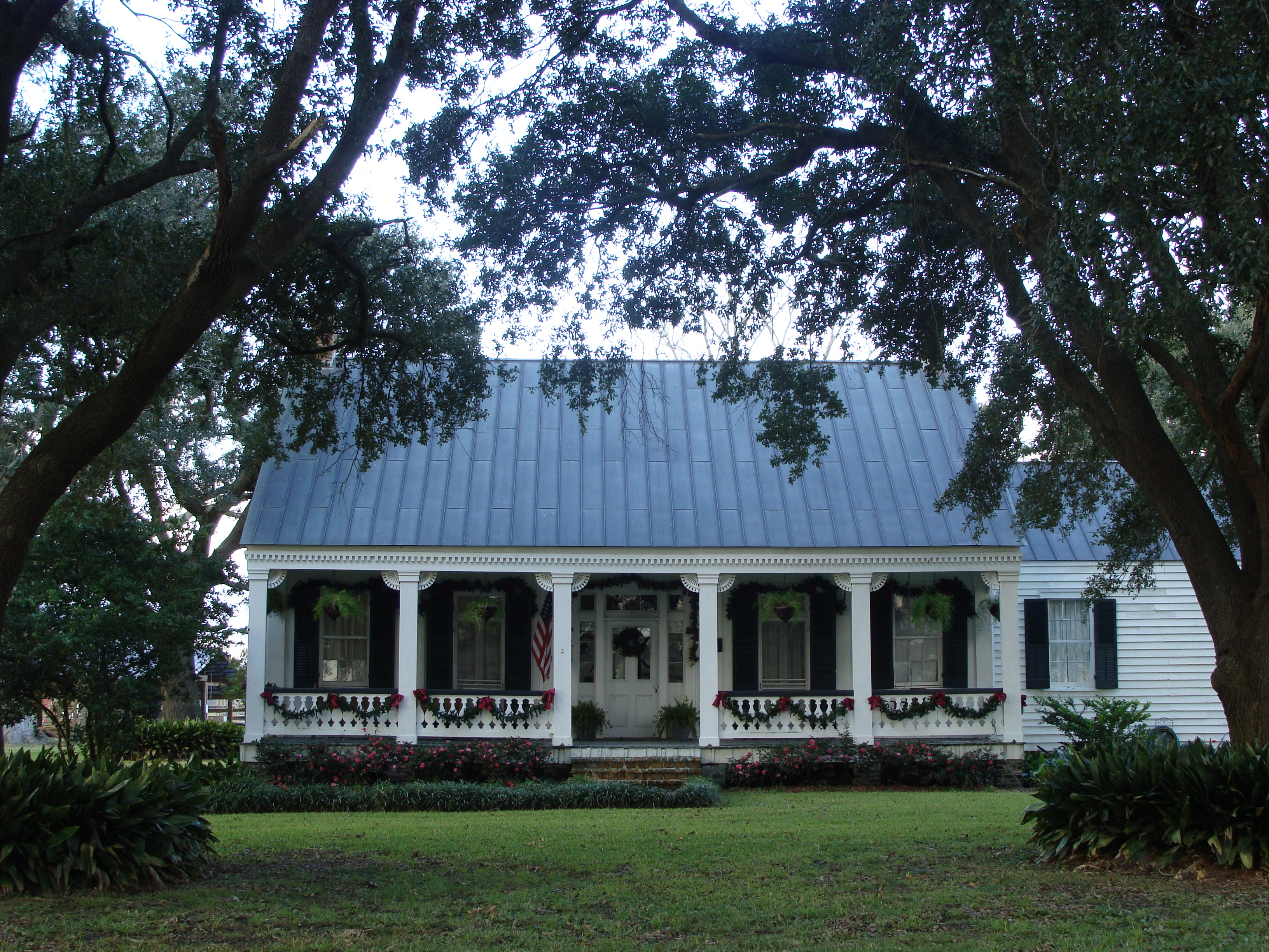 Christmas at Lucky Plantation